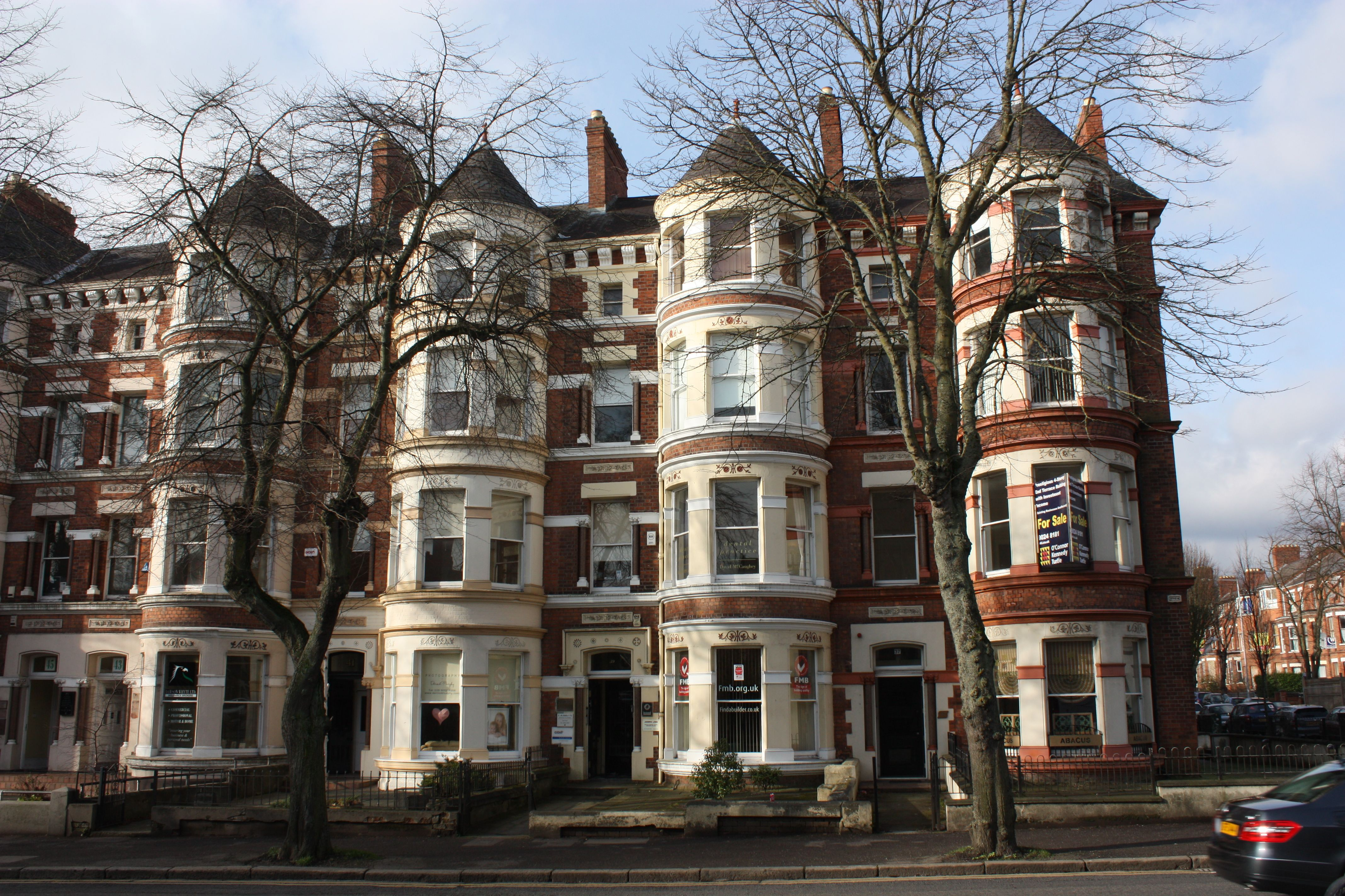 Malone Road, Belfast, Northern Ireland, February 2012 (opposite Fisherwick Presbyterian Church)